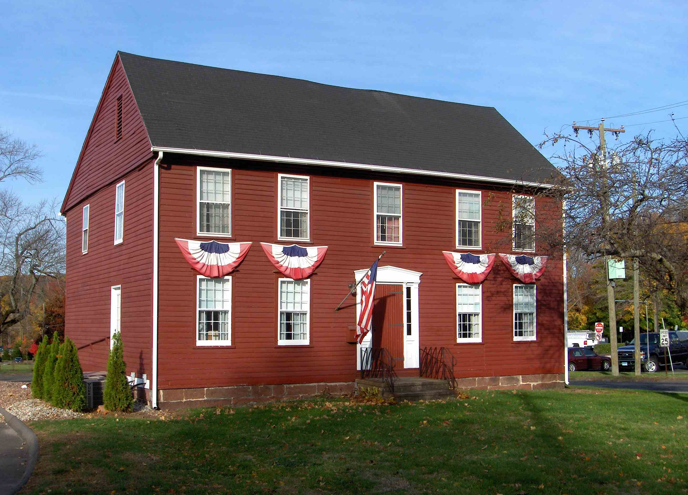 House and tavern of Jonathan Root, first selectman of Southington Ct USA. Located at 140-142 North Main street. Built circa 1720 Front view